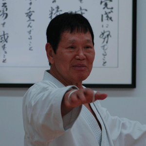 Photo of Sensei Yutaka Yaguchi on March 22, 2008. The photo was taken at the WWSKC (Western Washington Shotokan Karate Club) in Bellevue, WA (USA) during a seminar for ISKF (International Shotokan Karate Federation) students from Washington, Oregon, Vancouver B.C., and other states. Sensei Yaguchi is explaining some of the finer points of the various Shotokan kata in this photo. Behind him is the Shotokan Dojo Kun in Japanese.